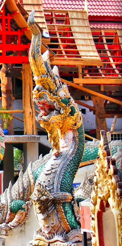 Wat Khung TaphaoLocation: Wat Khung Taphao Ban Khung Taphao, Khung Taphao subdistrict, Mueang Uttaradit, Uttaradit Province, Thailand.